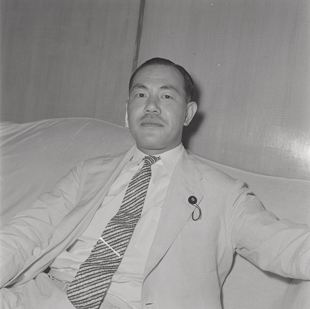 Image of Prime Minister Kakuei Tanaka in 1954.